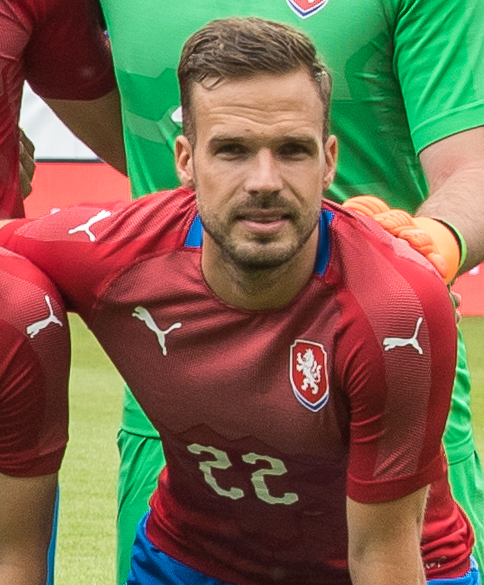 1/6/18St. Poelten, Austria, sports, football, International friendly - Australia vs Czech Republic. Image shows the team of Czech Republic.